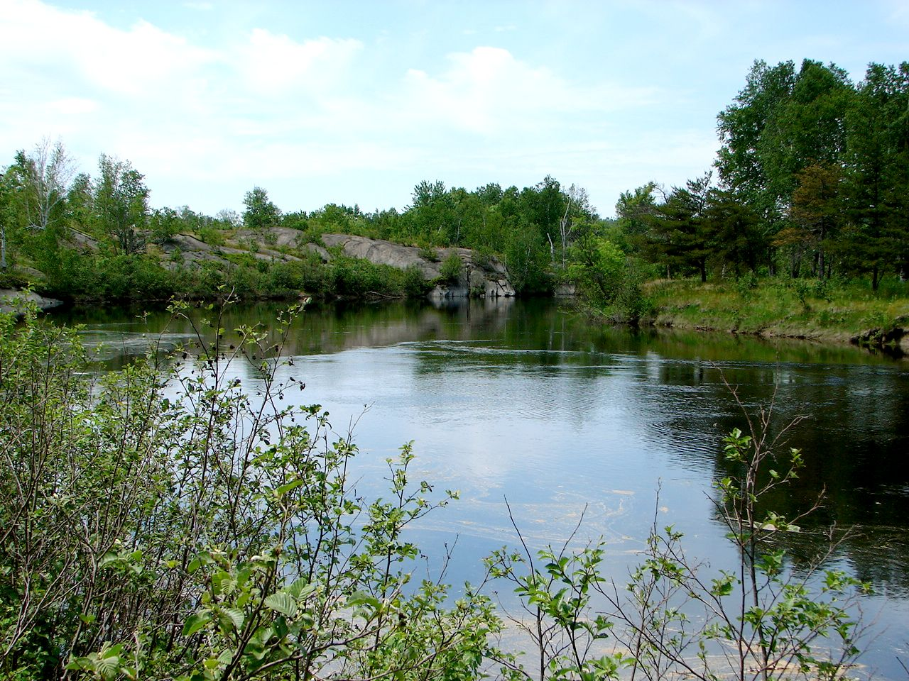 Wanapitei River at Wanup (Greater Sudbury), Ontario, Canada